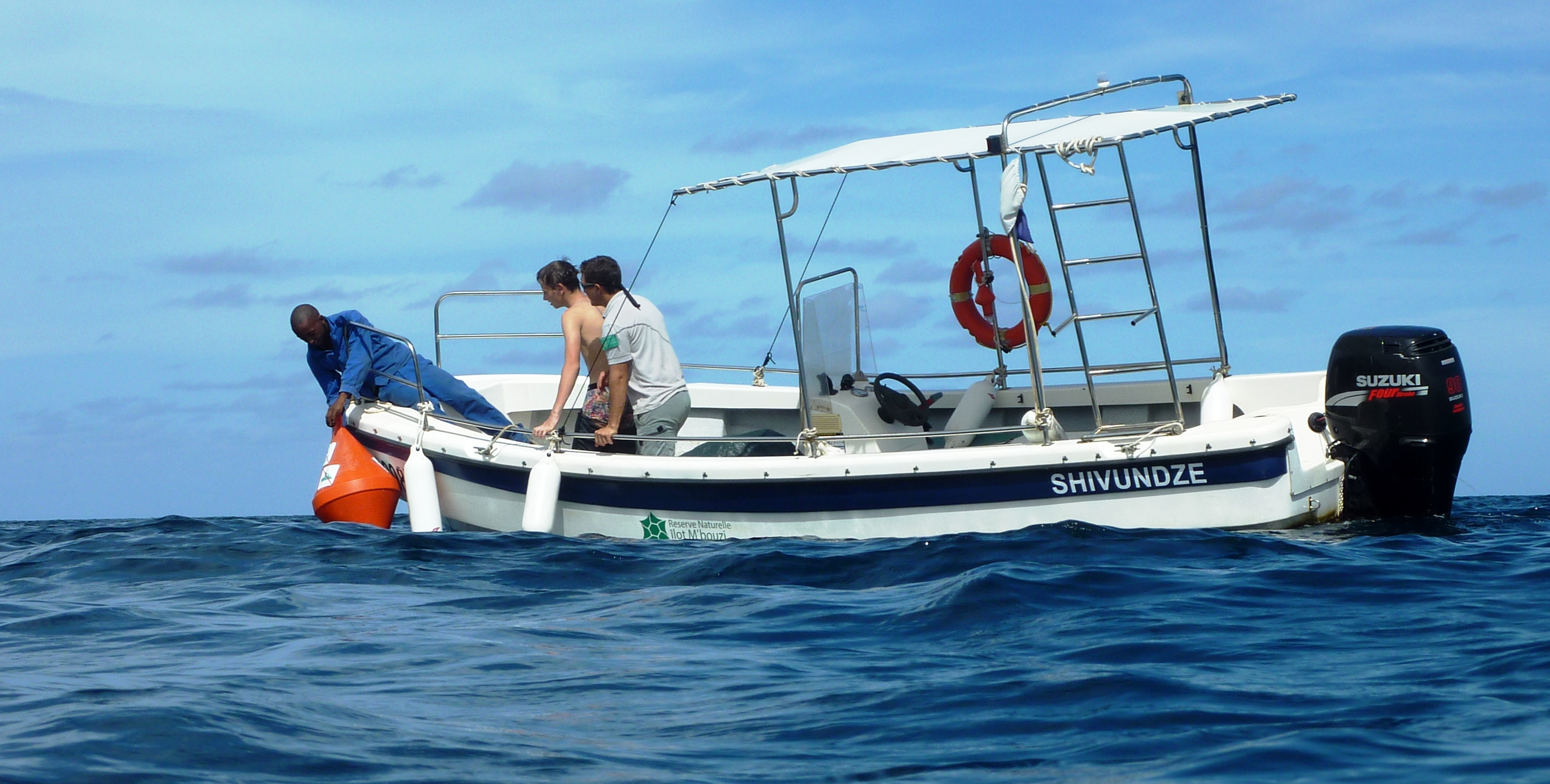 MBouzi